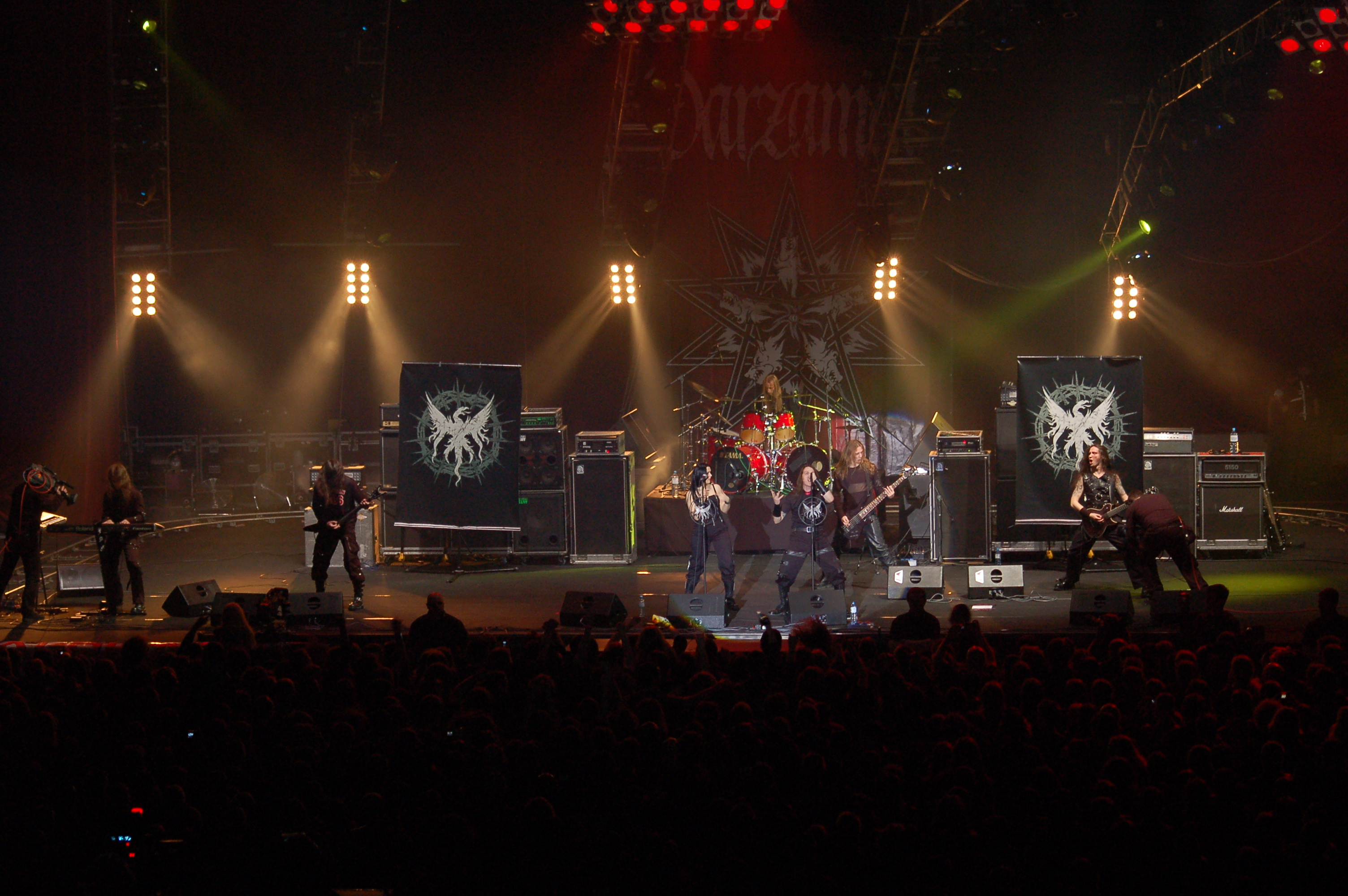 Spectre, Daamr, Nera, Darkside, Flauros, Bacchus and Chris from Darzamat during Metalmania 2007 festival.